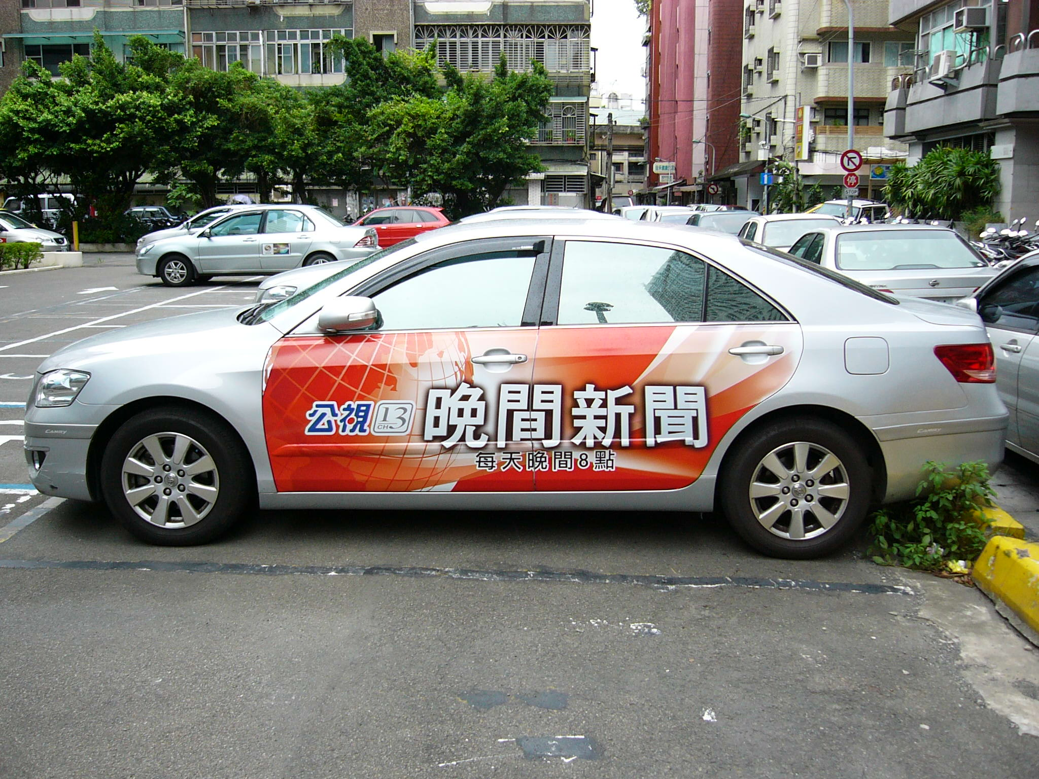 Toyota Camry of PTS News with wrap advertising of PTS Evening News.